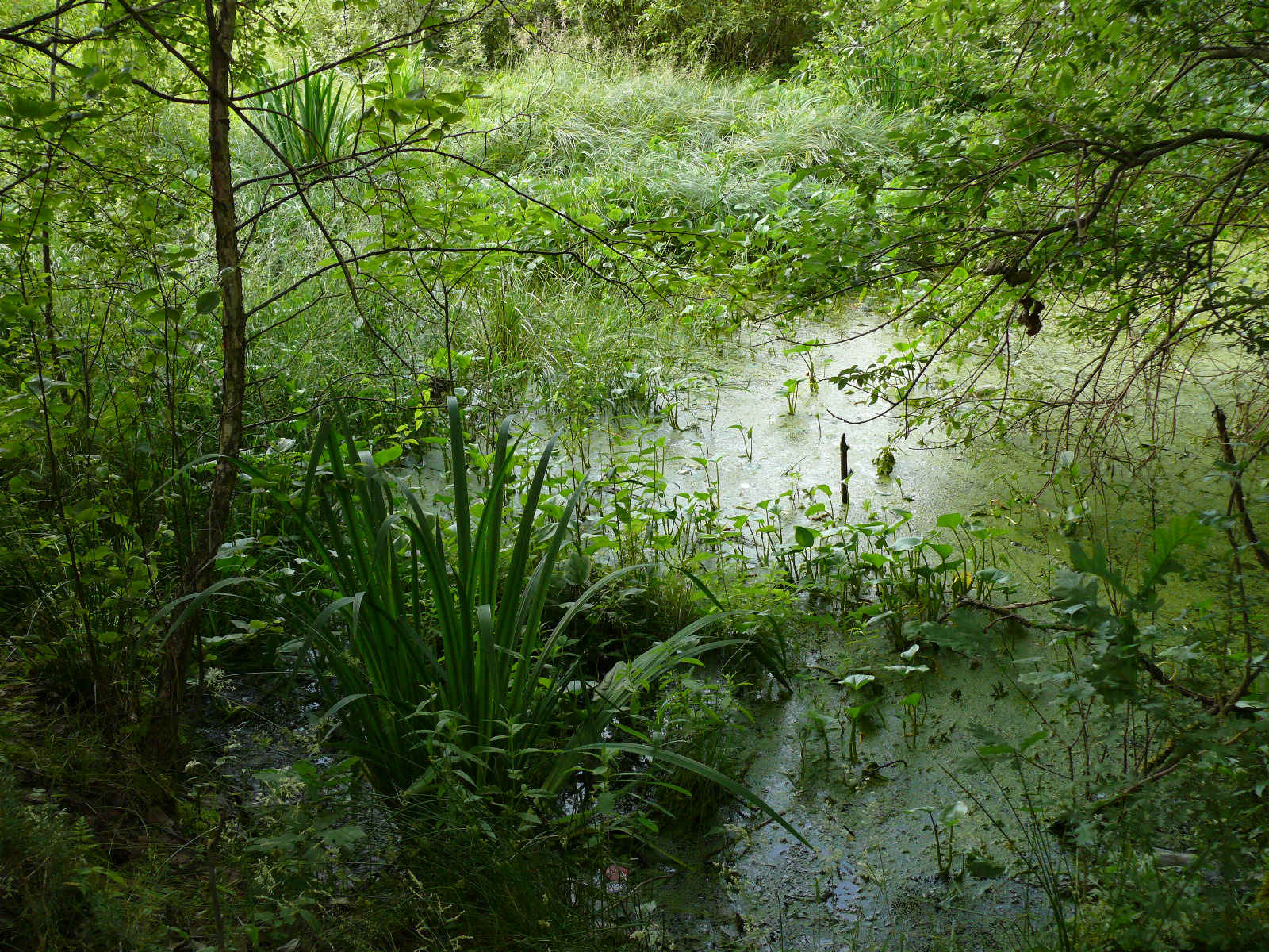 Marsh in Olsztyn